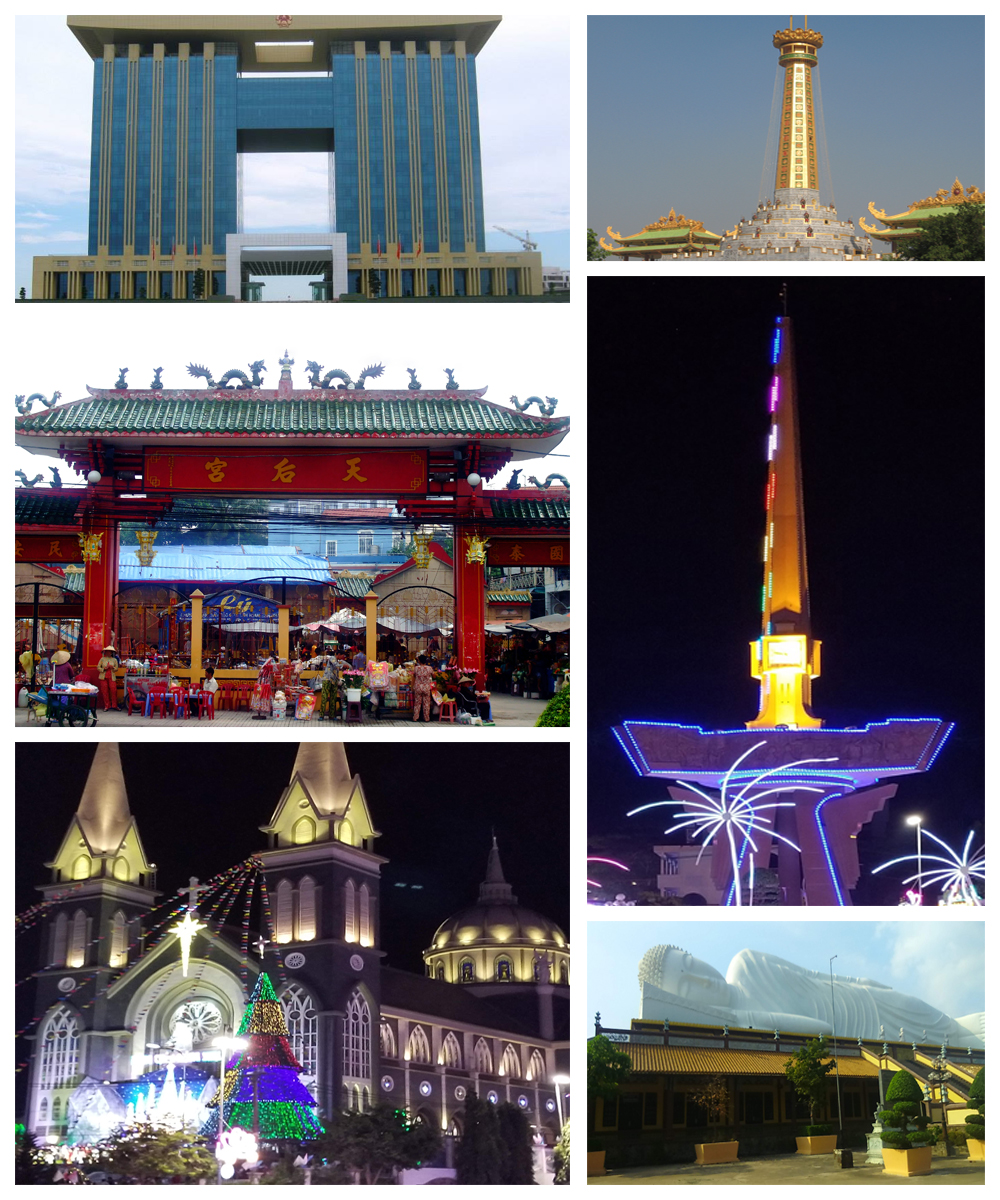 A collage of photos depicting several Thu Dau Mot buildings and sceneries.